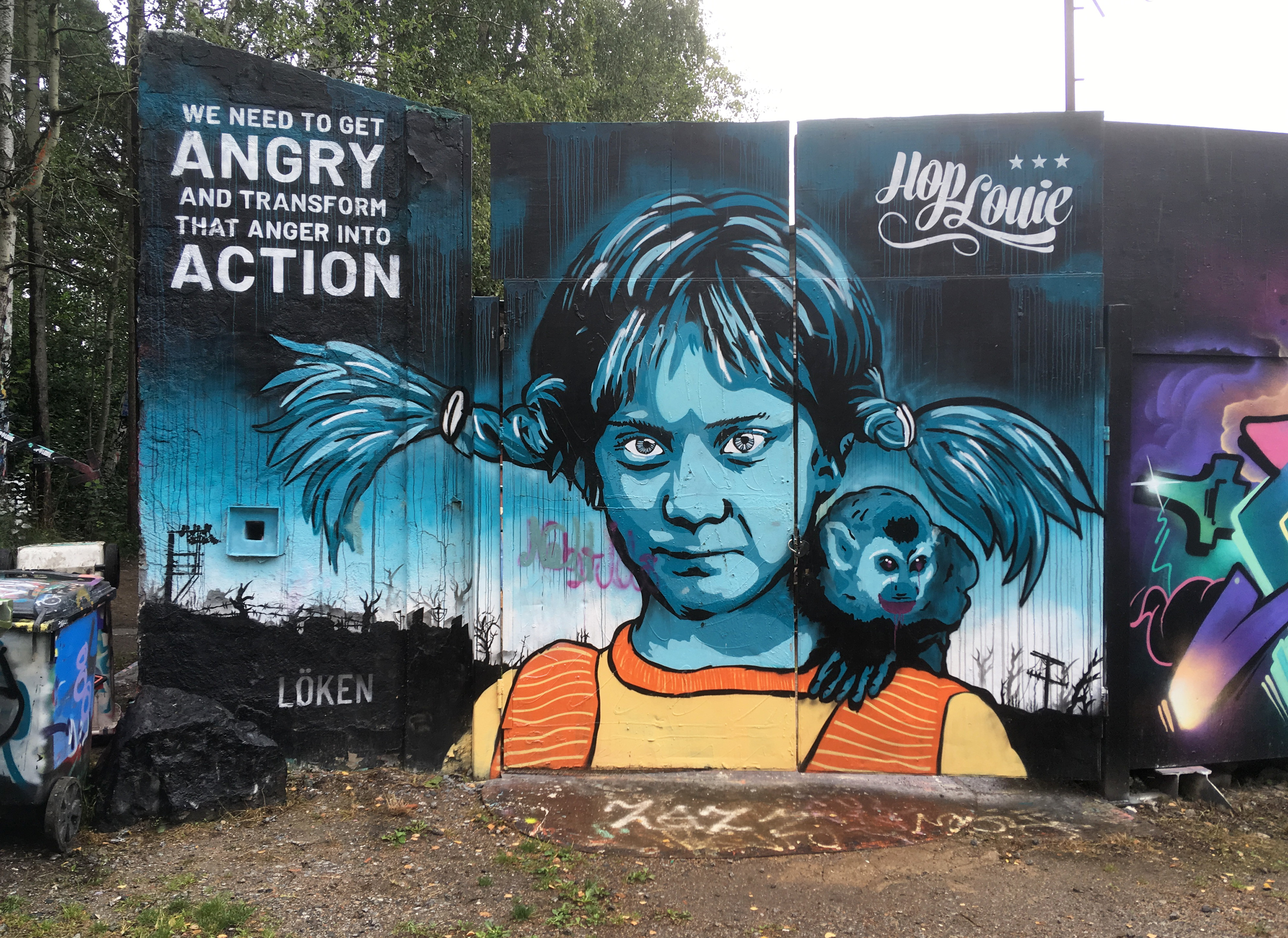 Snösättra communication area, Greta Thunberg as Pippi Långstrump (signature Hop Loui)